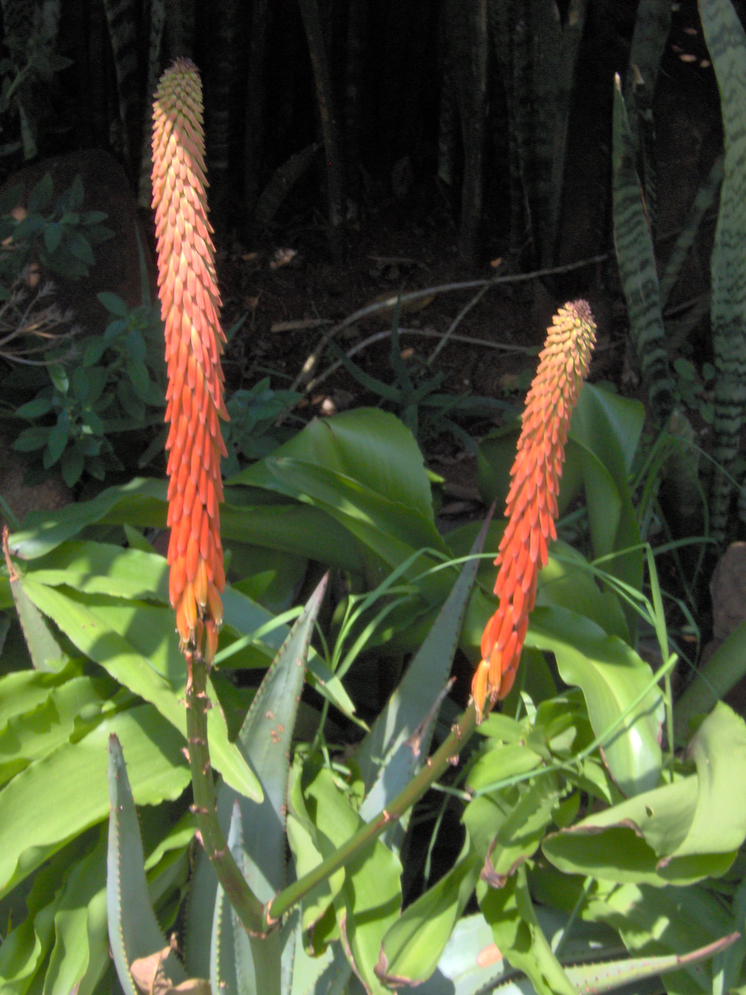 Aloe reitzii is a rare and endangered species occurring in Tonteldoos, Mpumalanga, South Africa